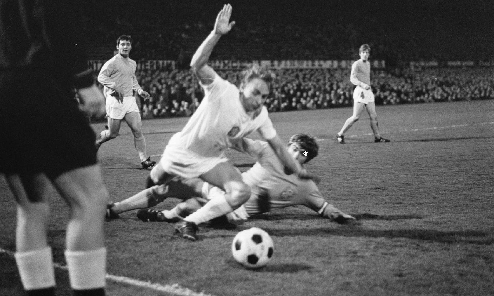 football match between Netherlands and Czechoslovakia